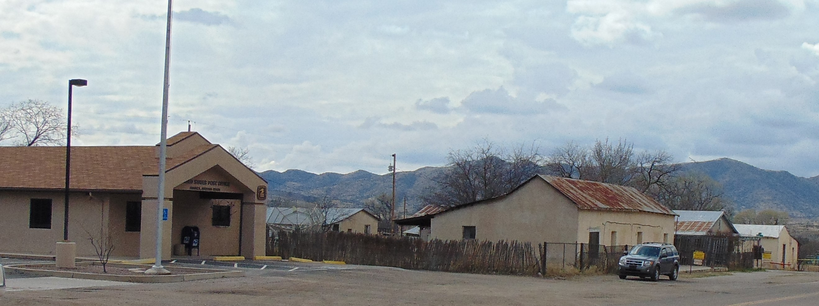 The US Post Office and the former stagecoach depot (large building with tin roof at right) in Arivaca, Arizona.